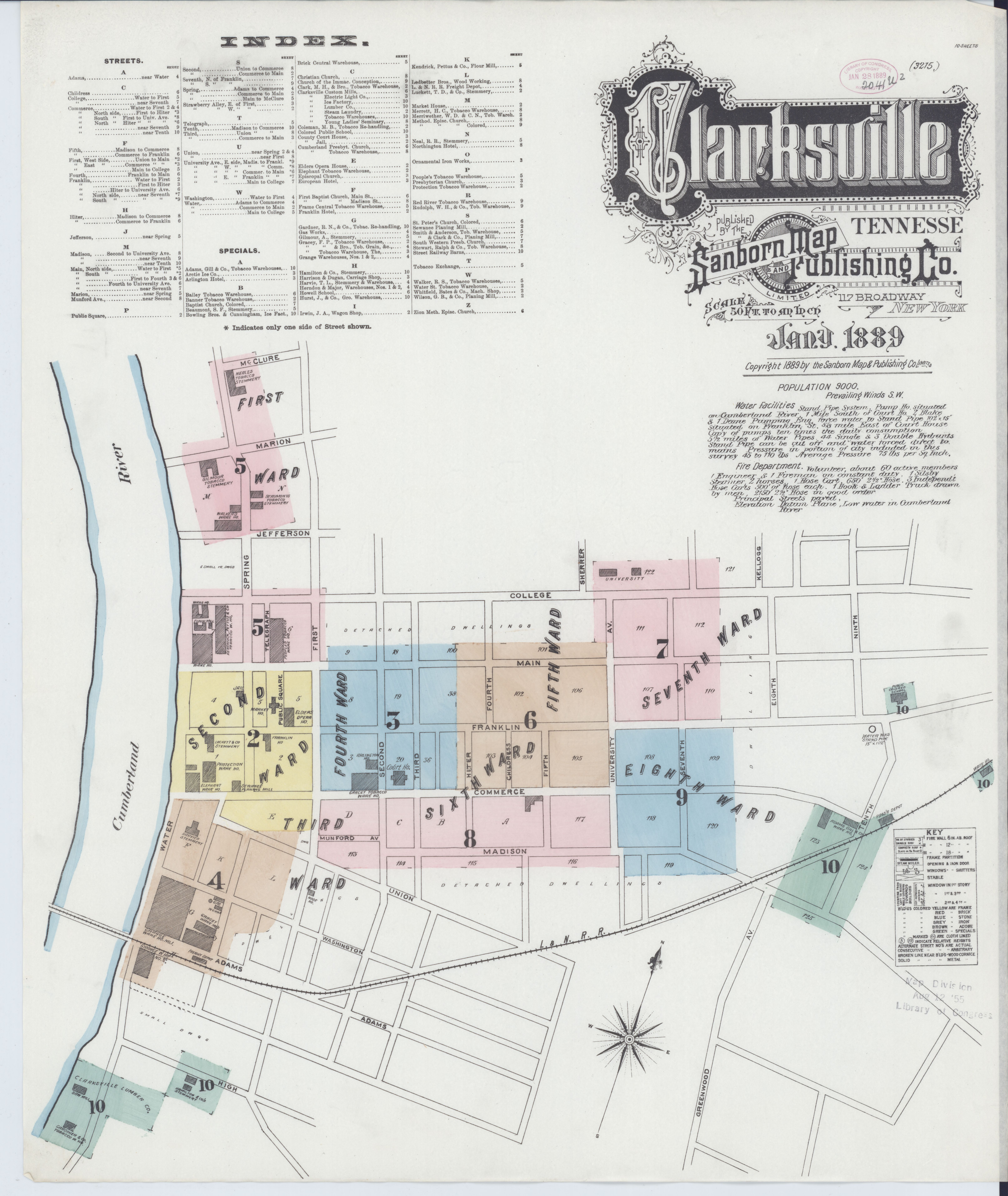 Jan 1889. 10 Sheet(s).